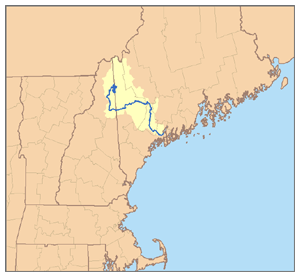 This is a map of the Androscoggin River watershed. I, Pfly, made it, based on USGS data.